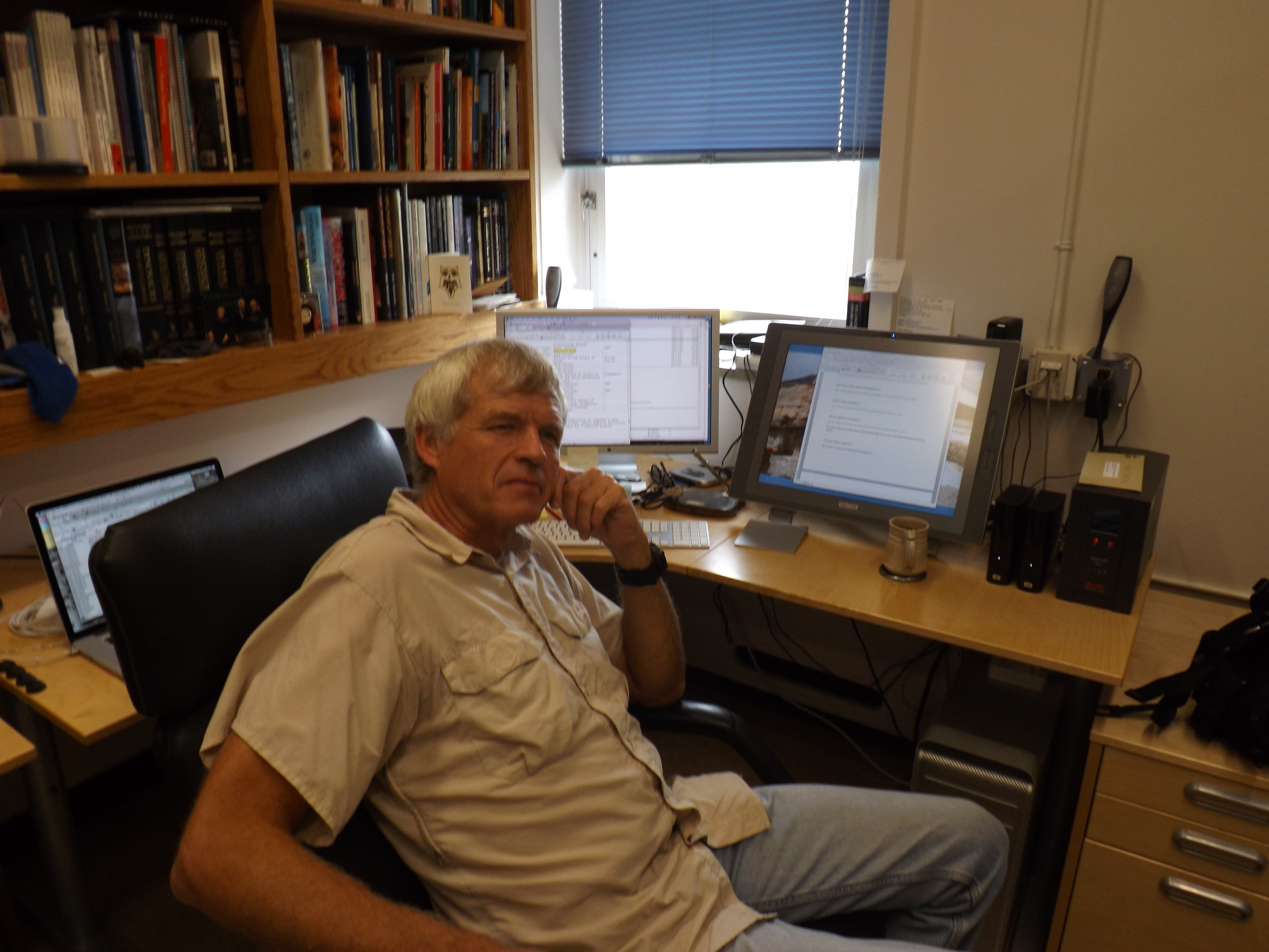 Philip Currie